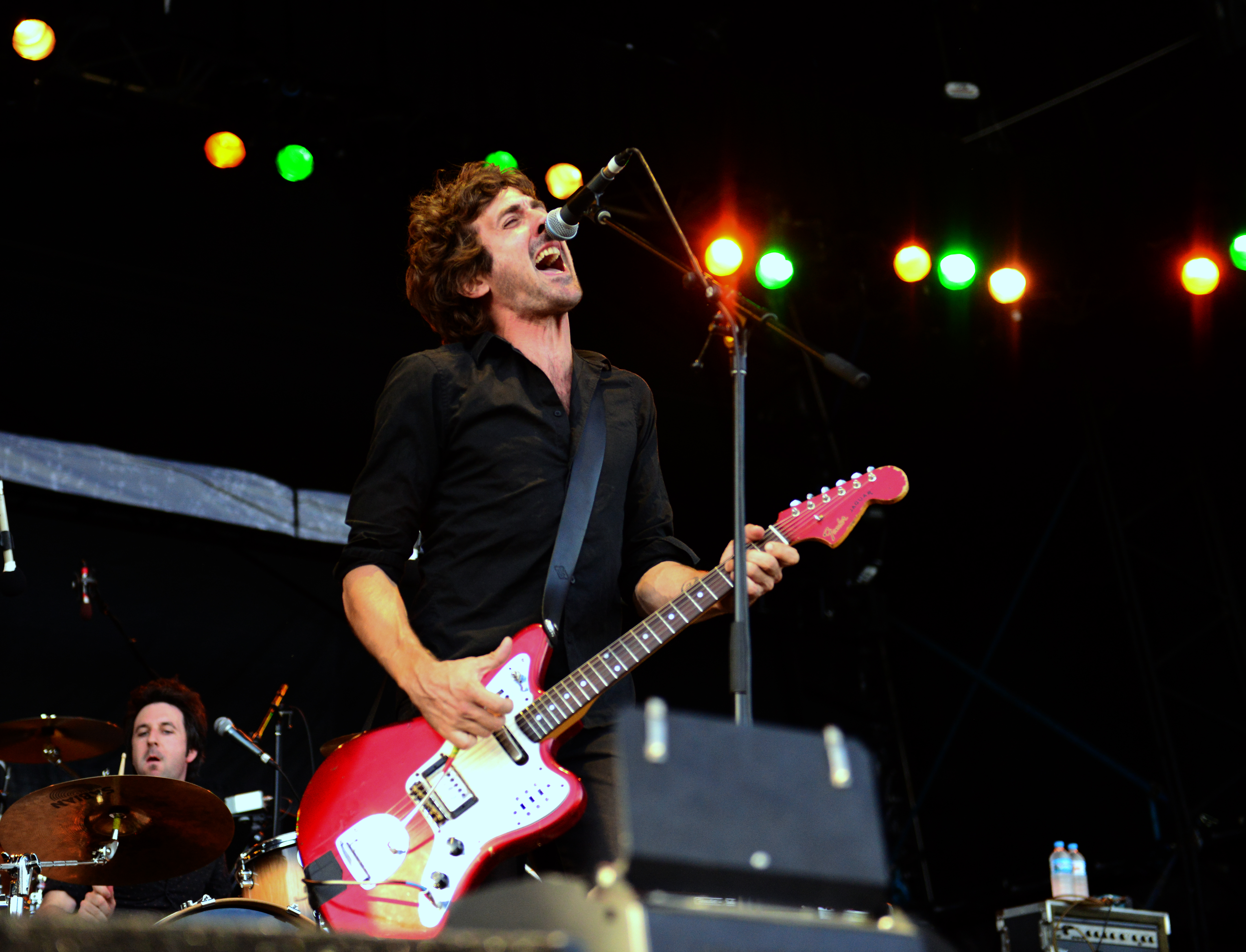 Lead singer Gareth Liddiard from The Drones performing at A Day On The Green NSW Australia